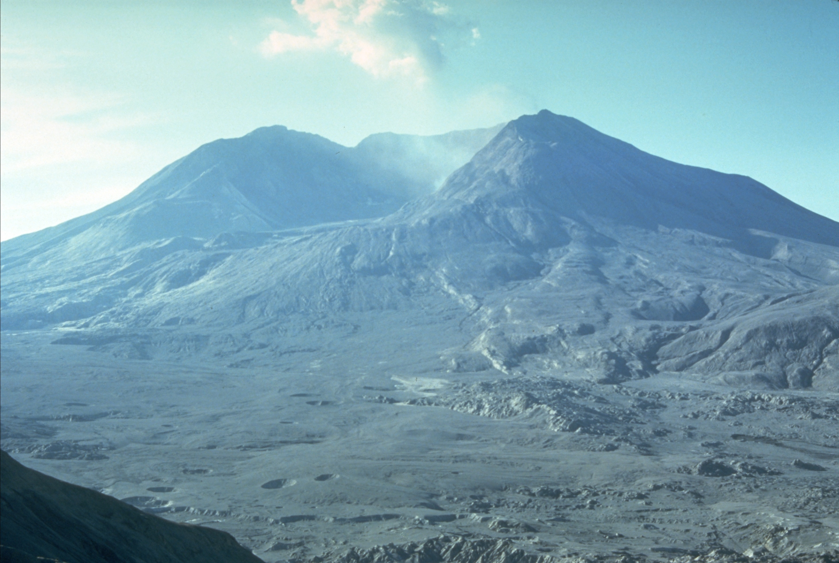 Mount St. Helens soon after the May 18, 1980 eruption, as viewed from Johnston's Ridge.